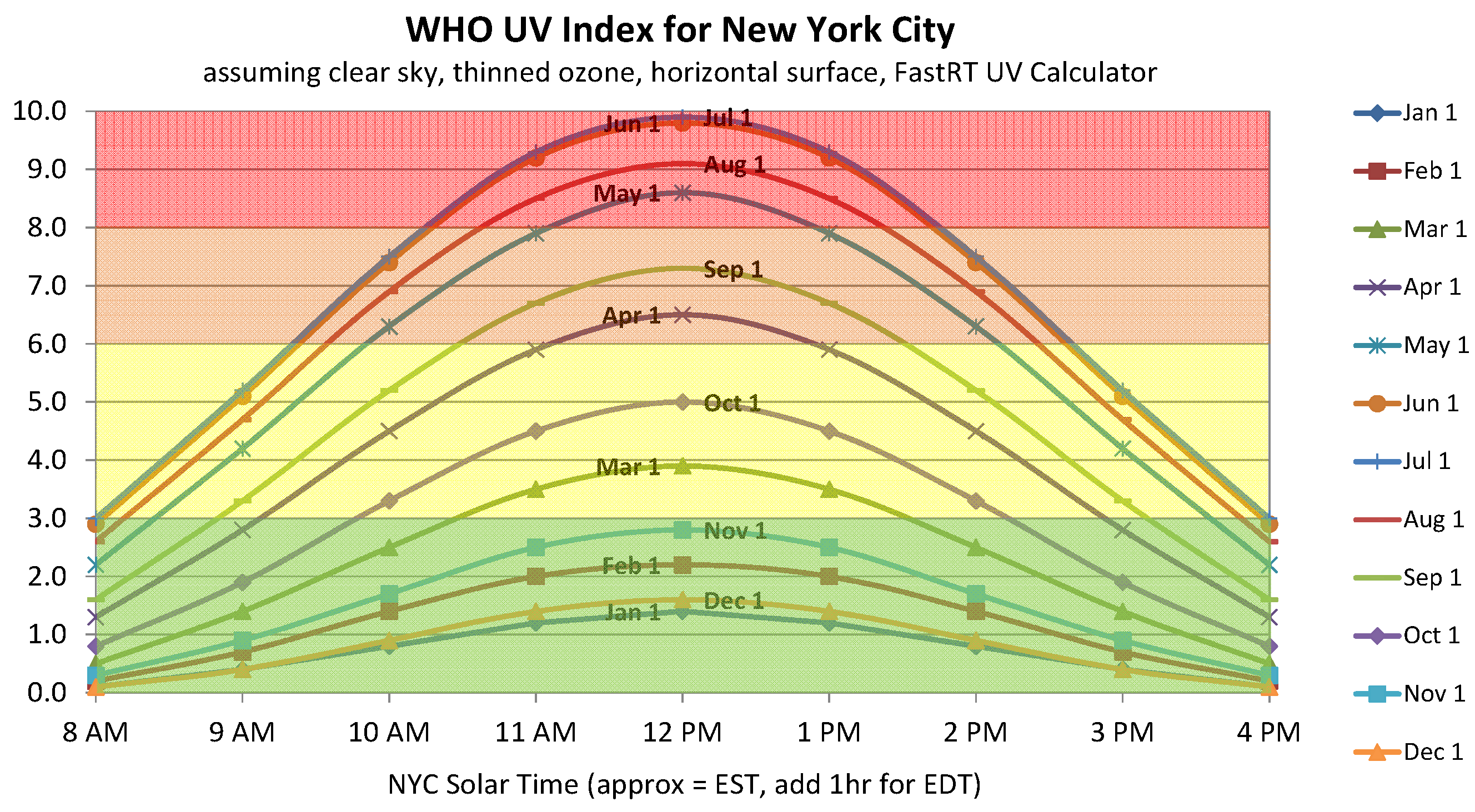 typical variation of Ultraviolet index by time of day and time of year, based on FastRT UV Calculator at graphed via Excel spreadsheet